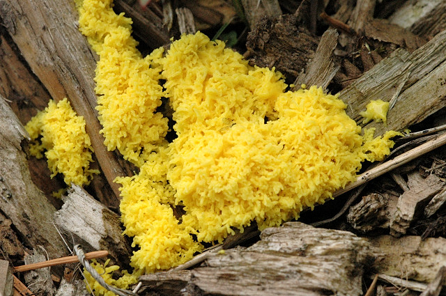 Picture taken in Commanster, Belgian High Ardennes. Species: Fuligo septica The determination of the species shown in this picture has been verified.